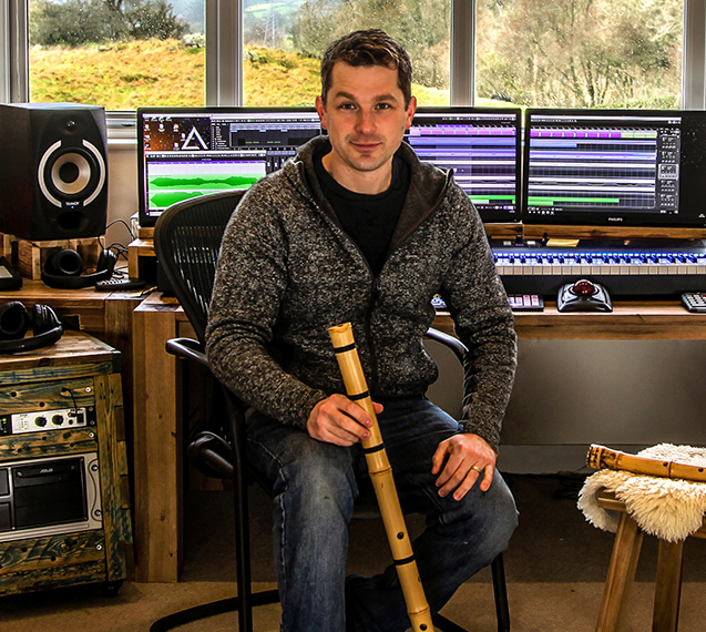 This is Aroshanti in the Studio with a Shakuhachi flute.